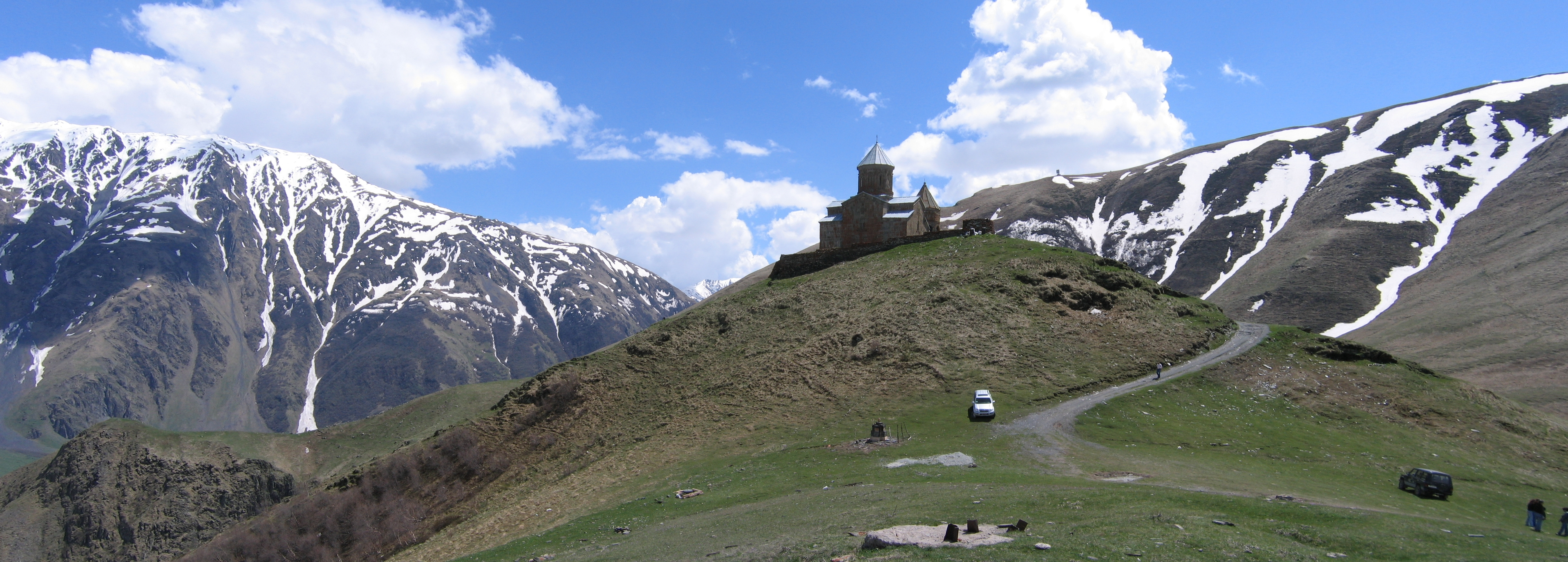 The Gergeti trinity Church